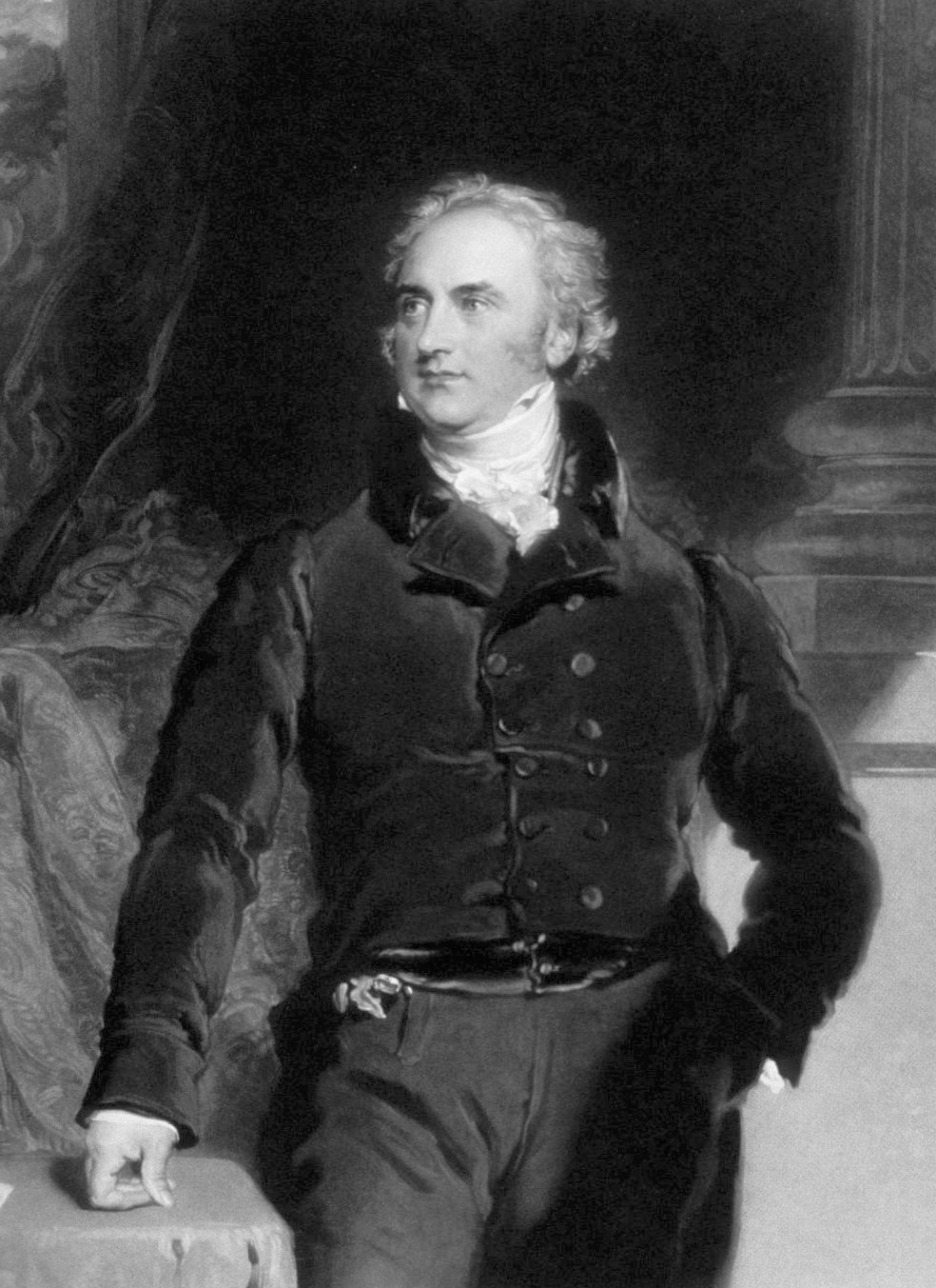 Portrait of Sir Astley Paston Cooper, 1st Baronet (23 August 1768 – 12 February 1841)